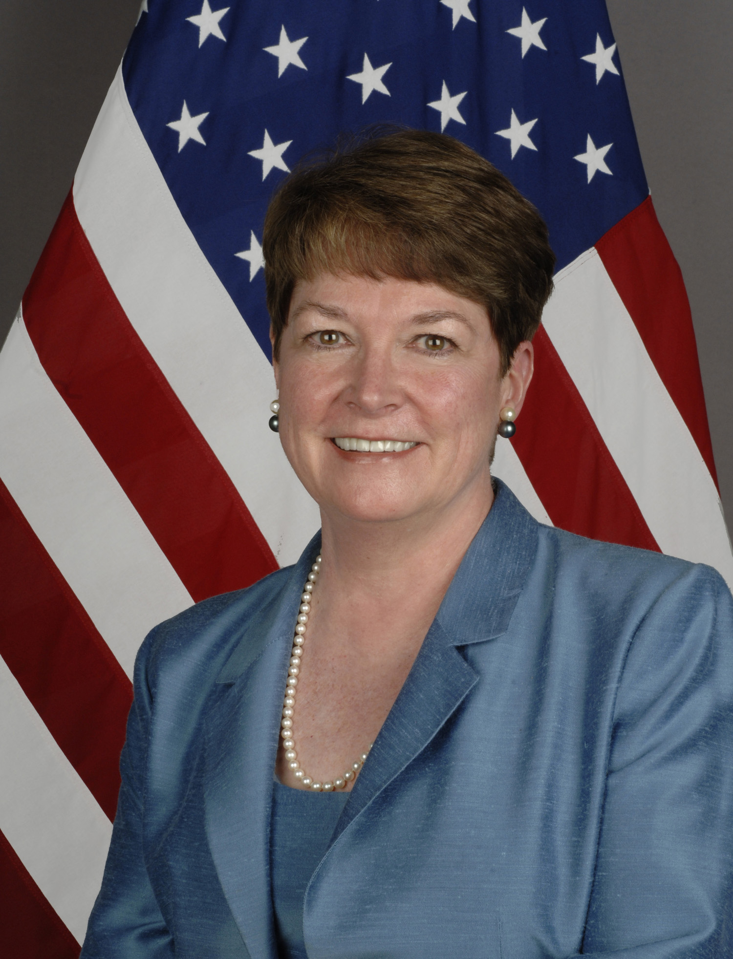 Heather M. Hodges. As of 2009, U.S. Ambassador to Ecuador; previous ambassador to Moldova.